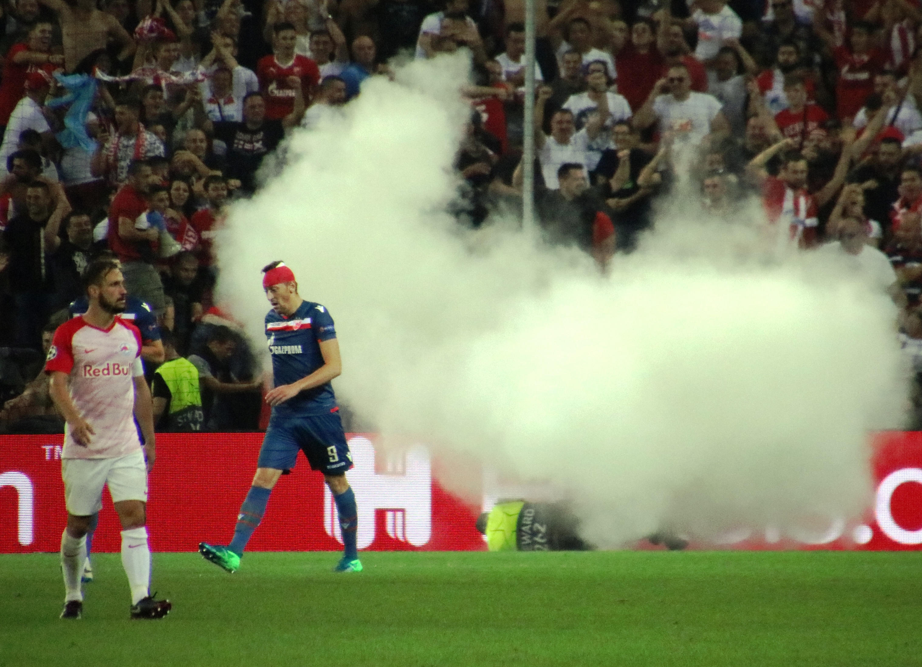 CL PLay off 29. August 2018 2nd leg